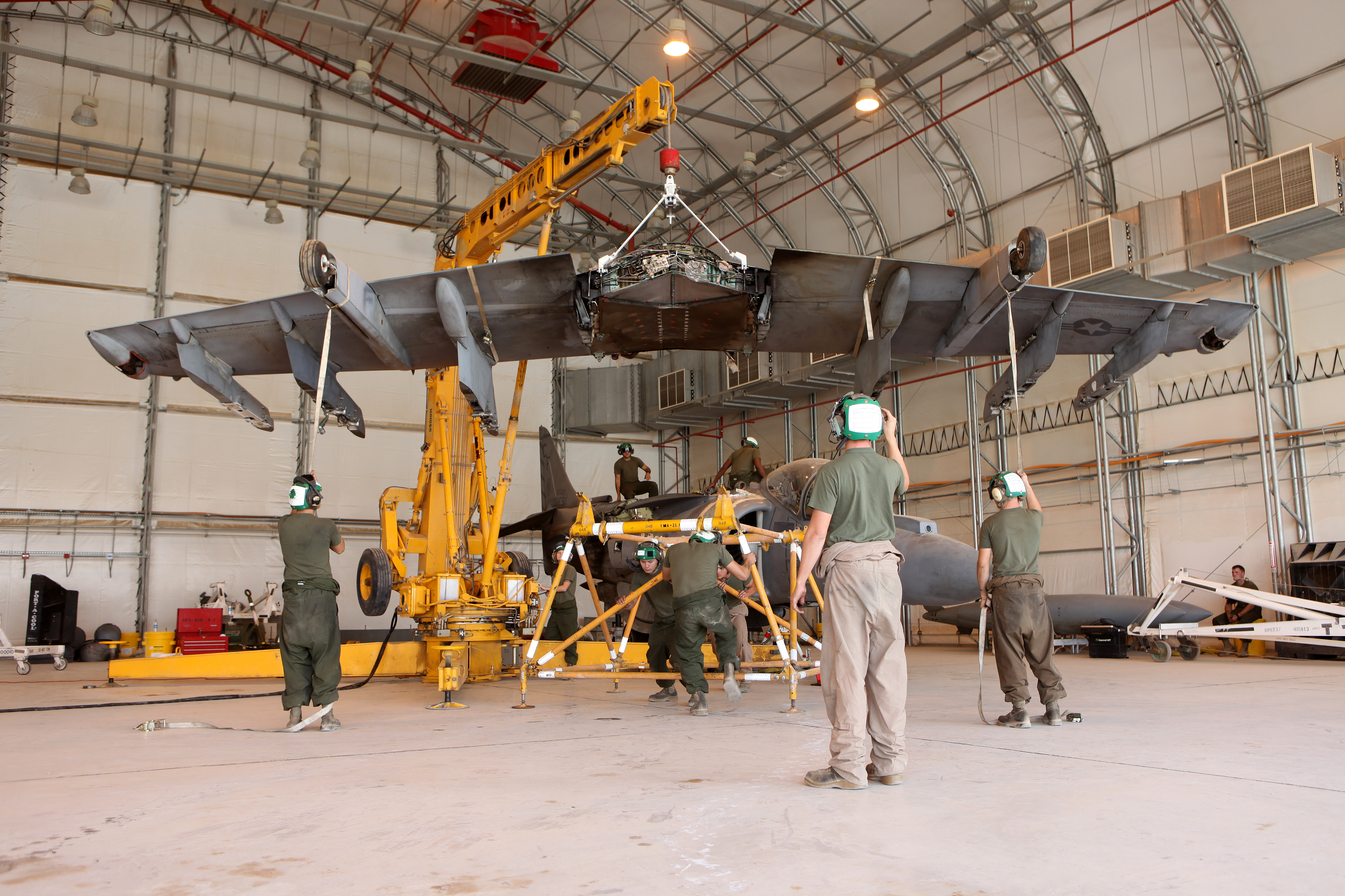 U.S. Marines with Marine Attack Squadron (VMA) 211 replace the wings of an AV-8B Harrier II aircraft at Camp Bastion in Helmand province, Afghanistan, Sept. 3, 2012.